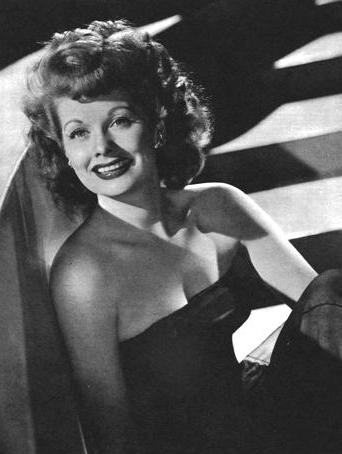 Cropped version of Image:Lucille Ball - YankArmyWeekly.jpg